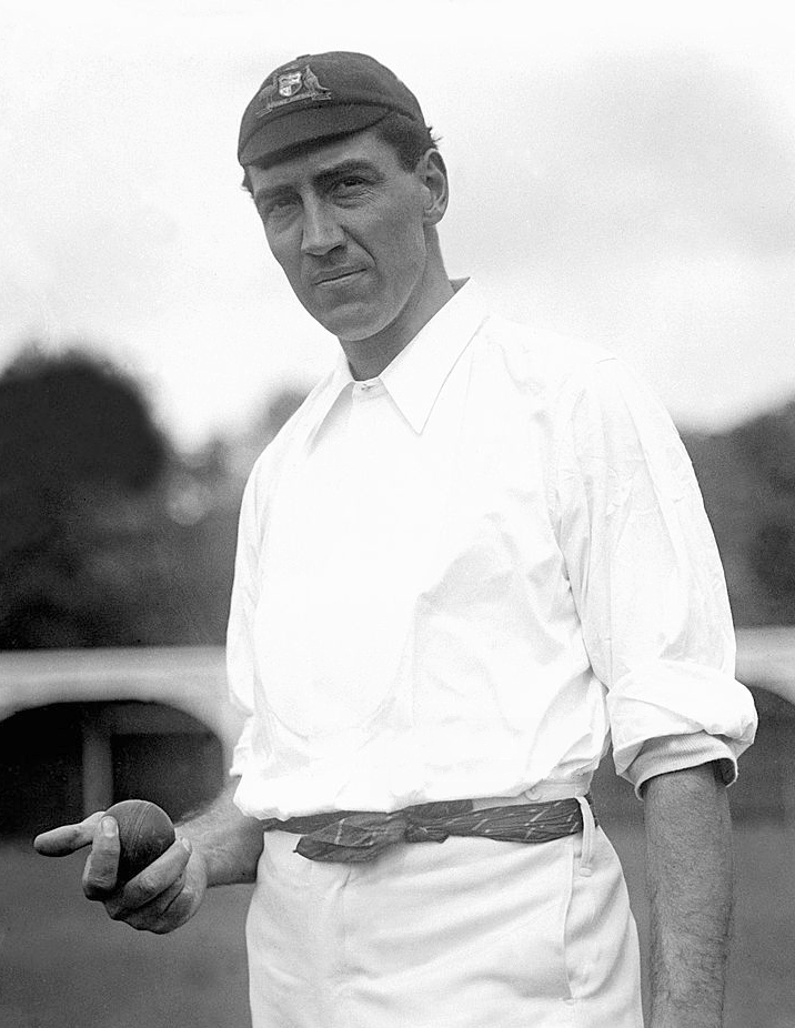 Frank Jonas Laver, Victoria and Australia, circa 1905.